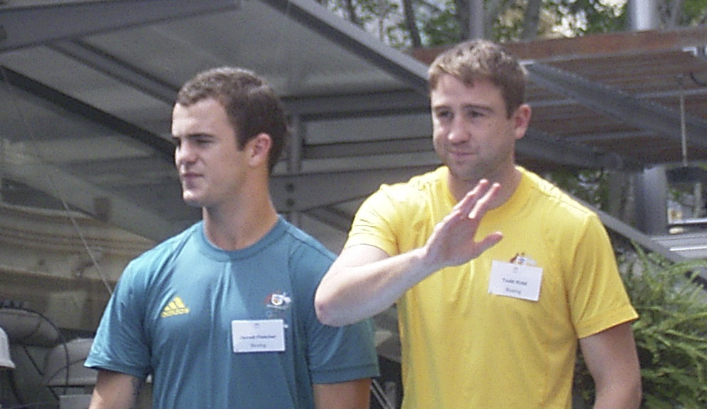 Australian olympians Todd Kidd and Jarrod Fletcher (?), Brisbane Olympic Homecoming Parade